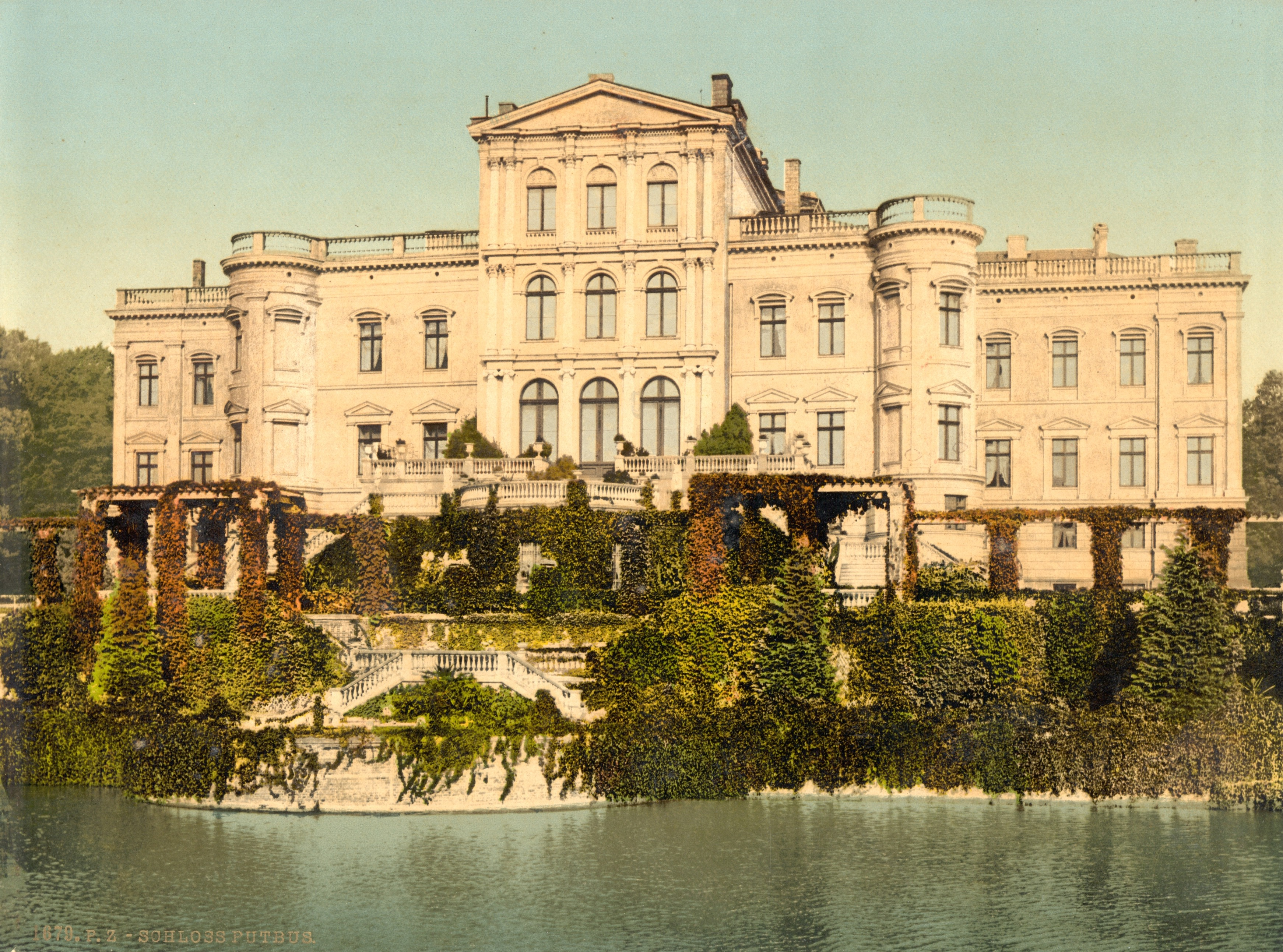 Putbus Castle (Rügen, Germany)